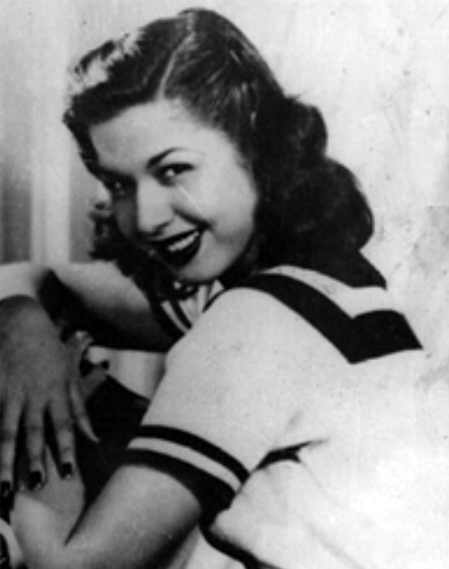 Samia Gamal: Egyptian belly dancer and actress.